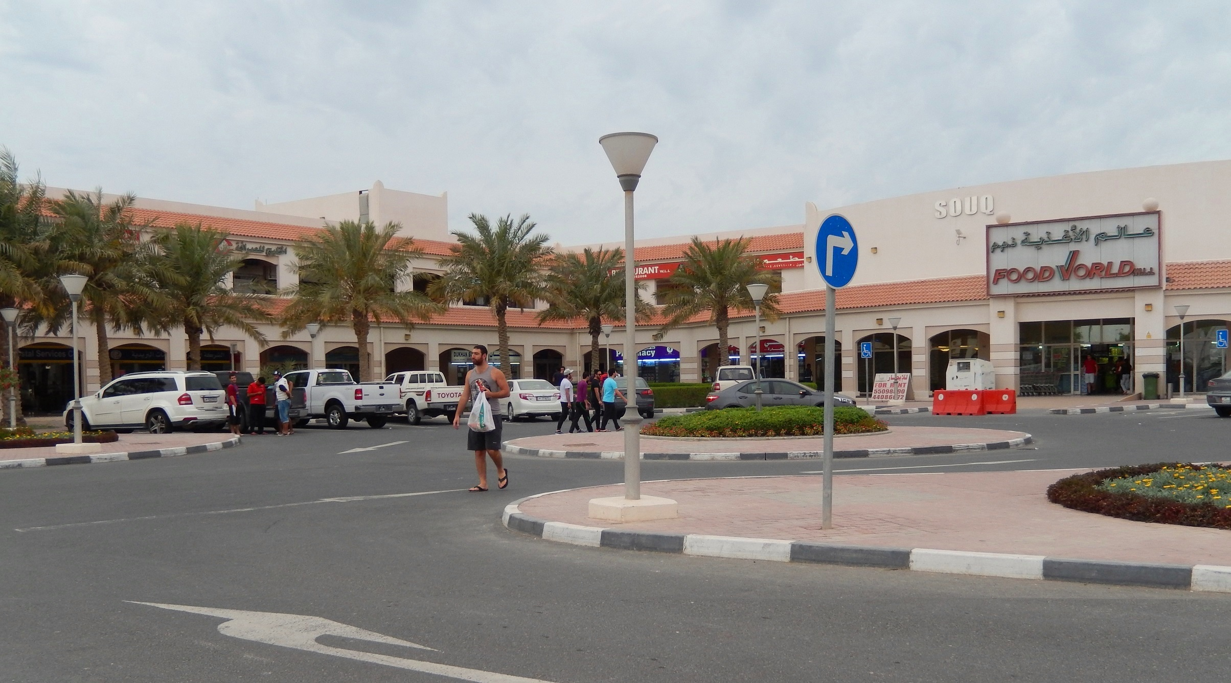 Shopping center in Dukhan, Qatar.